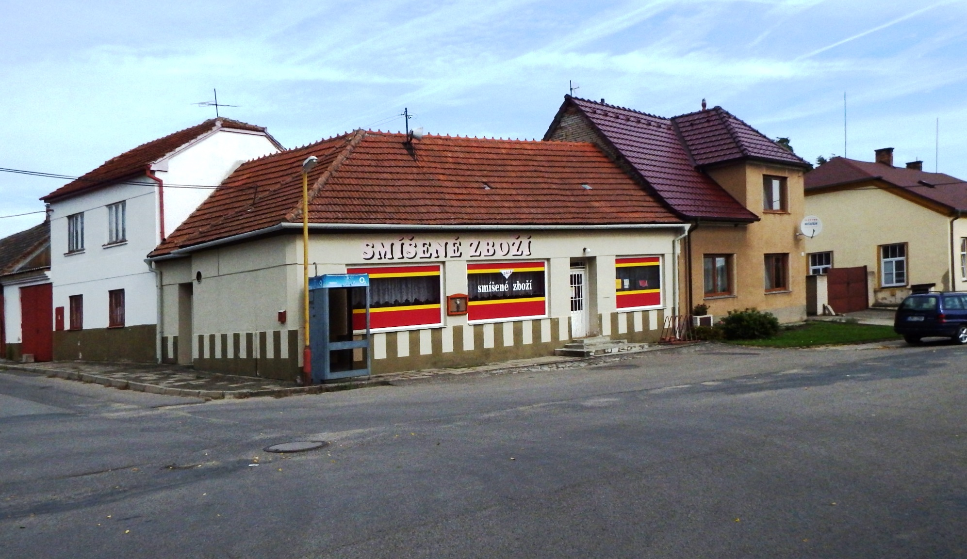 Malá Vrbka, Hodonín District, Czech Republic.